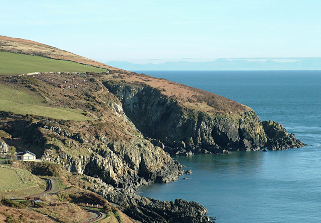 Groudle Headland - Isle of Man. Picture taken from the south side of Groudle Glen, with the mountains of the English Lake District visible on the horizon. The tracks of the Groudle Glen Railway can also be seen.